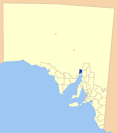 Modification of Astrokey44's original map found here: File:SA_LGA_blank.png Position of Coober pedy LGA